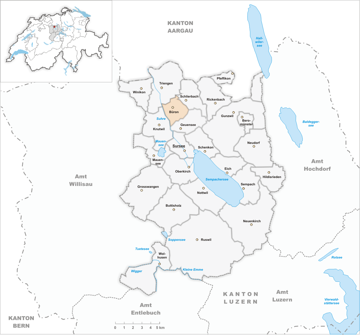 Municipality Büron